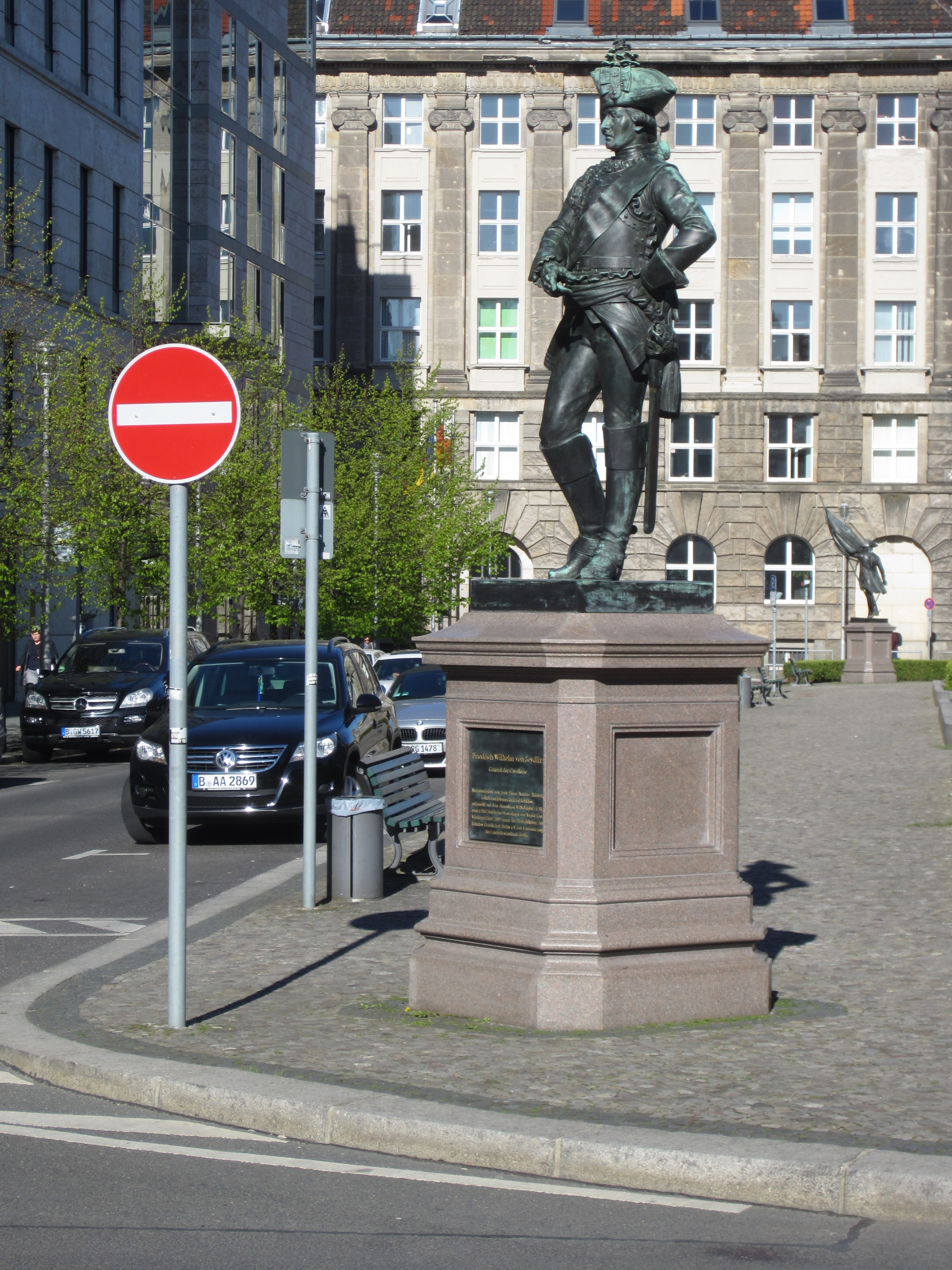 Statue of Friedrich Wilhelm von Seydlitz, Berlin, Germany (April 2016)